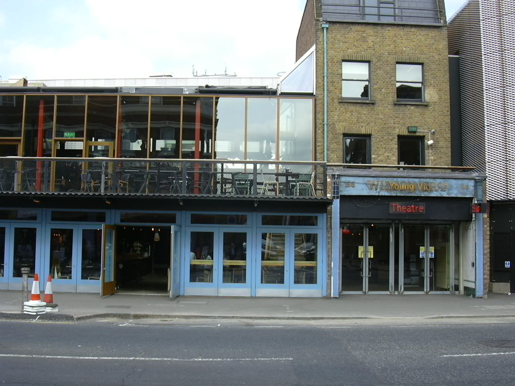 Photo of the Young Vic theatre in London taken by myself in April 2007. I hereby release it into the public domain.